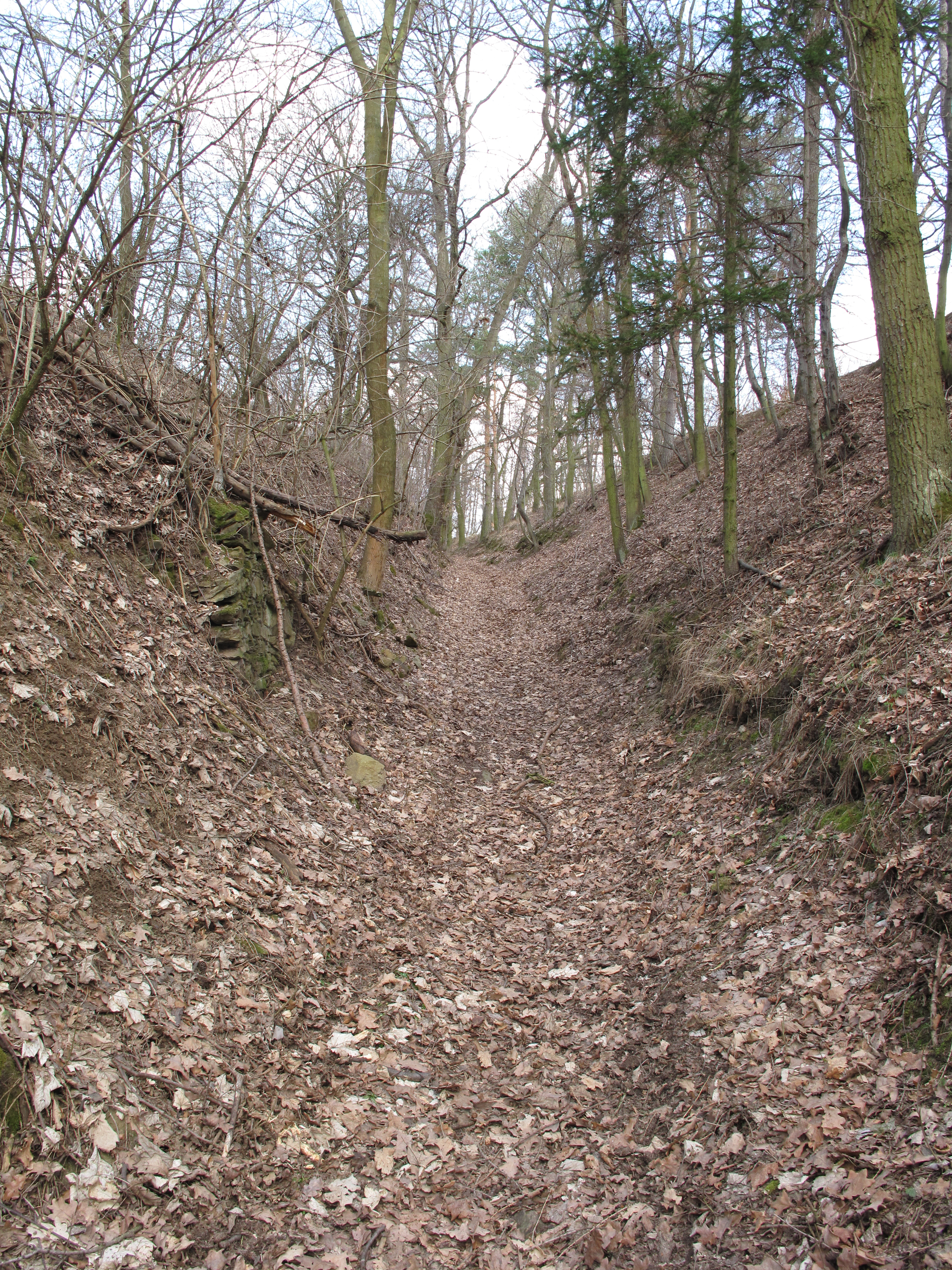 Ridge trail under form Denemark settlement near the top. Kutná Hora District, Czech Republic. This photograph was taken within the scope of the 'Czech Municipalities Photographs' grant.